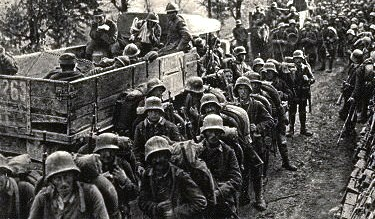 German troops marching along the Isonzo river (battle of Caporetto)